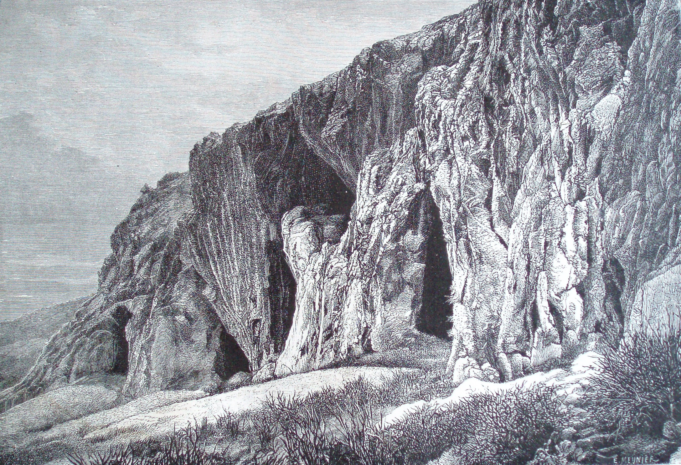 The cave of Baoussé Rossé (Rochers Rouges), a cut part of this file: File:Grotte des Baoussé Rossé (Rochers Rouges) à l'est de Menton.JPG